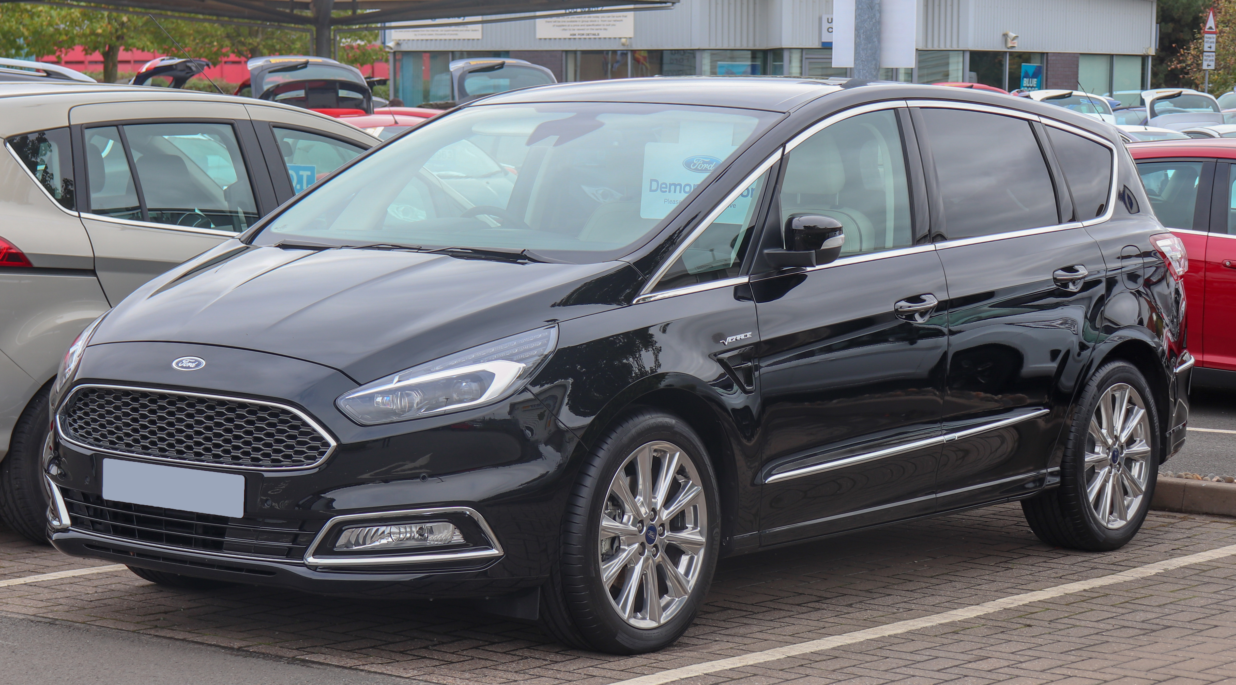 2018 Ford S-Max Vignale TDCi 2.0 Taken in Leamington Spa